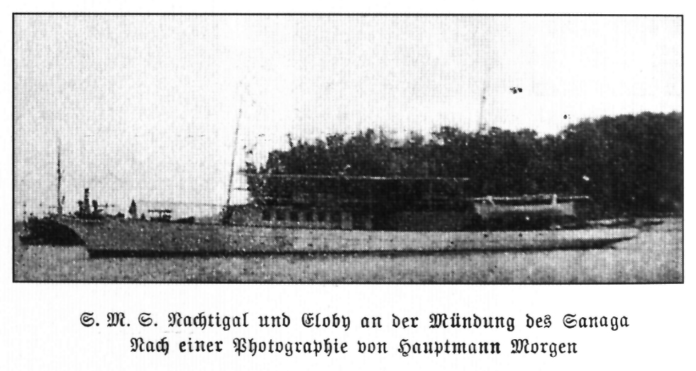 german auxiliary ship Nachtigal at the Sanaga delta in Cameroon (ca. 1895-1898)